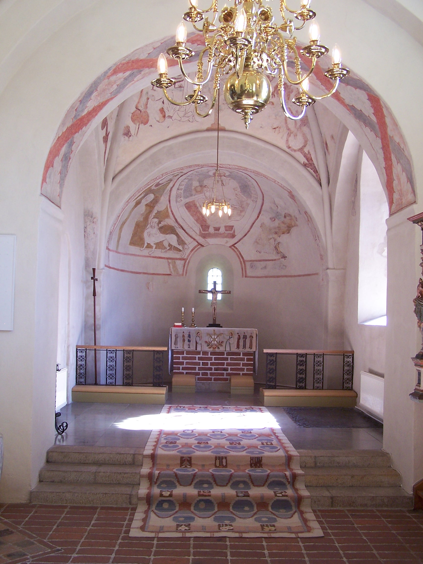 Norrvidinge kyrka - sanctuary.